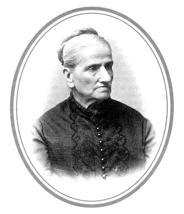 Dorotea de Chopitea's portrait, 1891